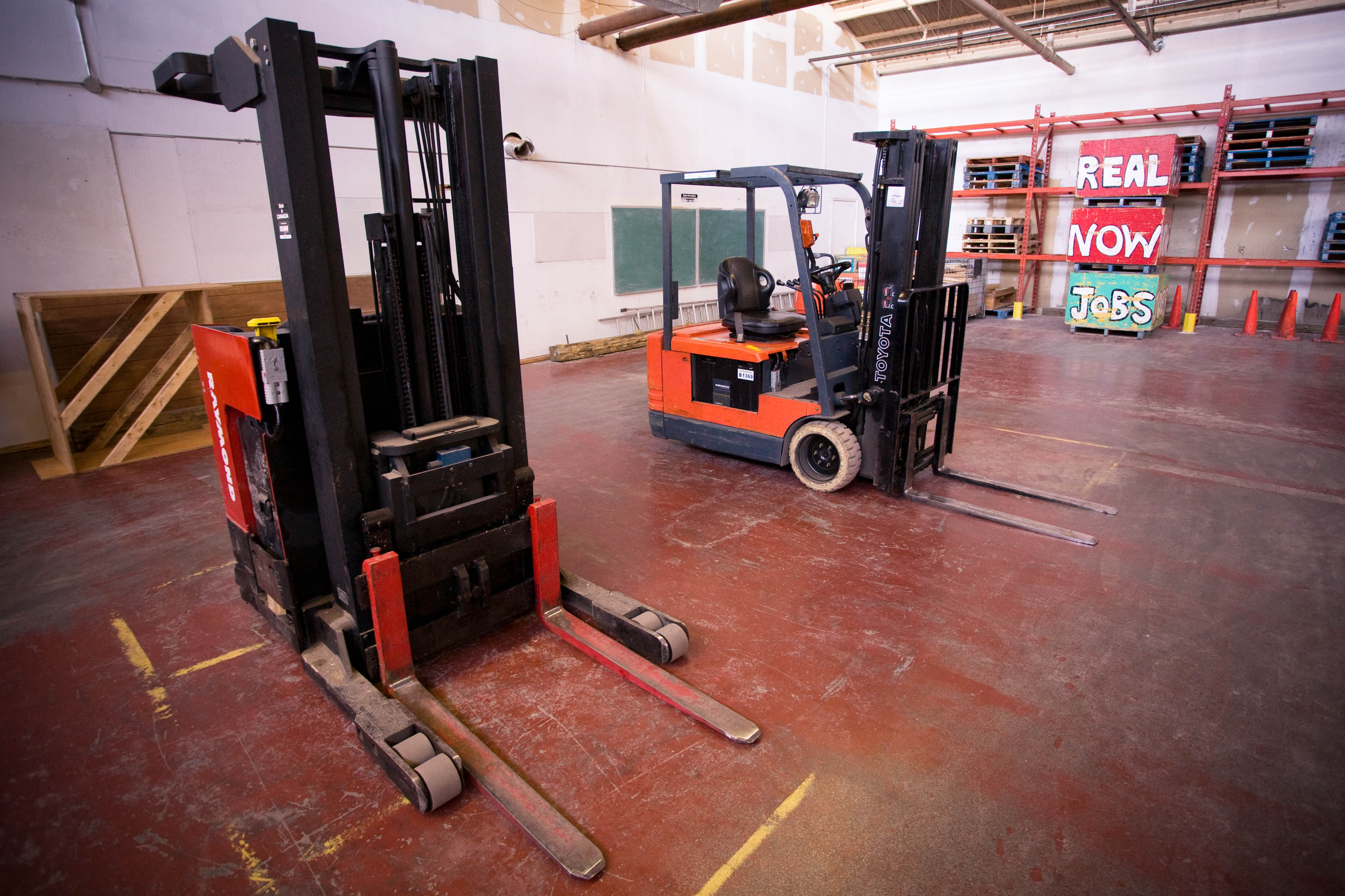 Training forklifts at the Learning Enrichment Foundation.